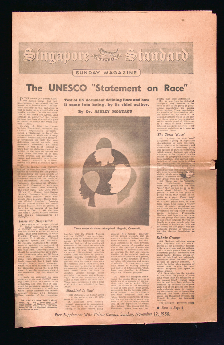 Sunday edition of Singapore Tiger Standard